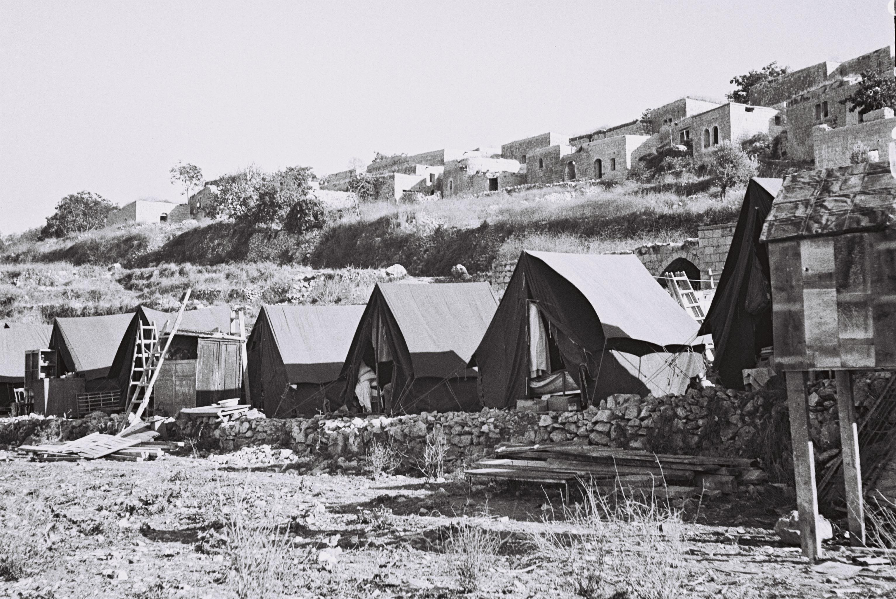 Original Description: TENTS AND HUTS AT MOSHAV HOSSEN, PUT UP BY IMMIGRANTS FROM NORTH AFRICA UNDERNEATH AN ABANDONED ARAB VILLAGE IN THE UPPER GALILEE.